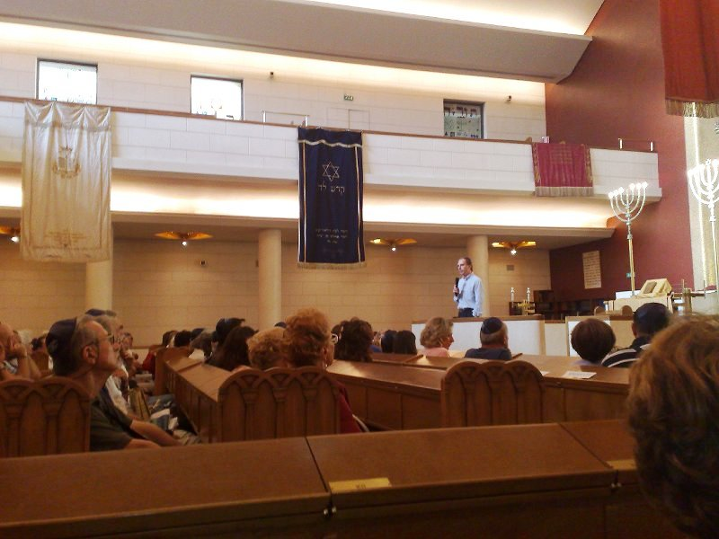 inside Synagoga_di_milano